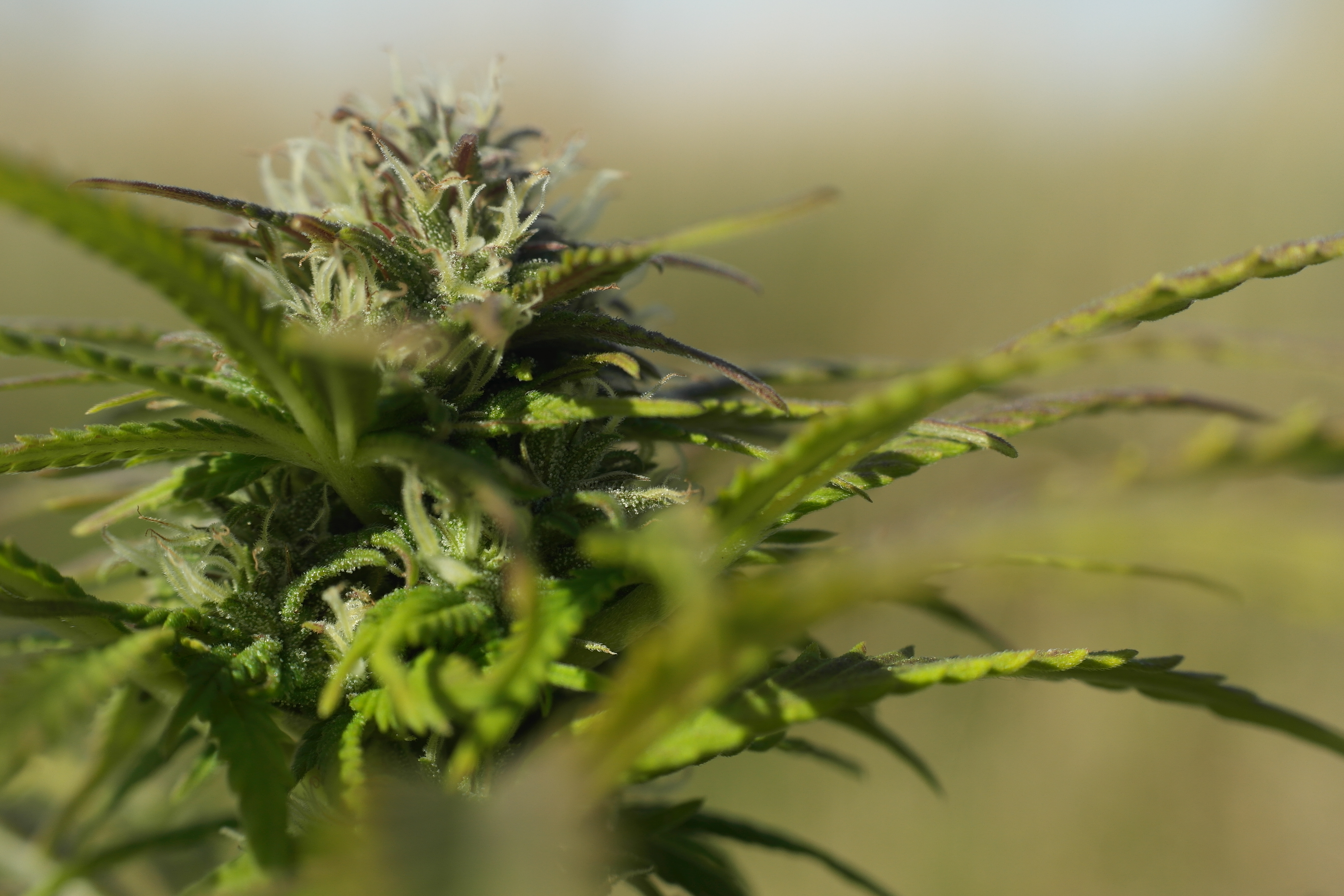 Cannabis flower with trichomes. Scandinavia. Drug chemotype. Also called Cannabis ruderalis due to adaptation to northern latitude commonly known as autoflowering. Cannabis ruderalis was by Nikolai Vavilov (1926) considered to be synonymous with his own concept Cannabis sativa L. var spontanea Vav.